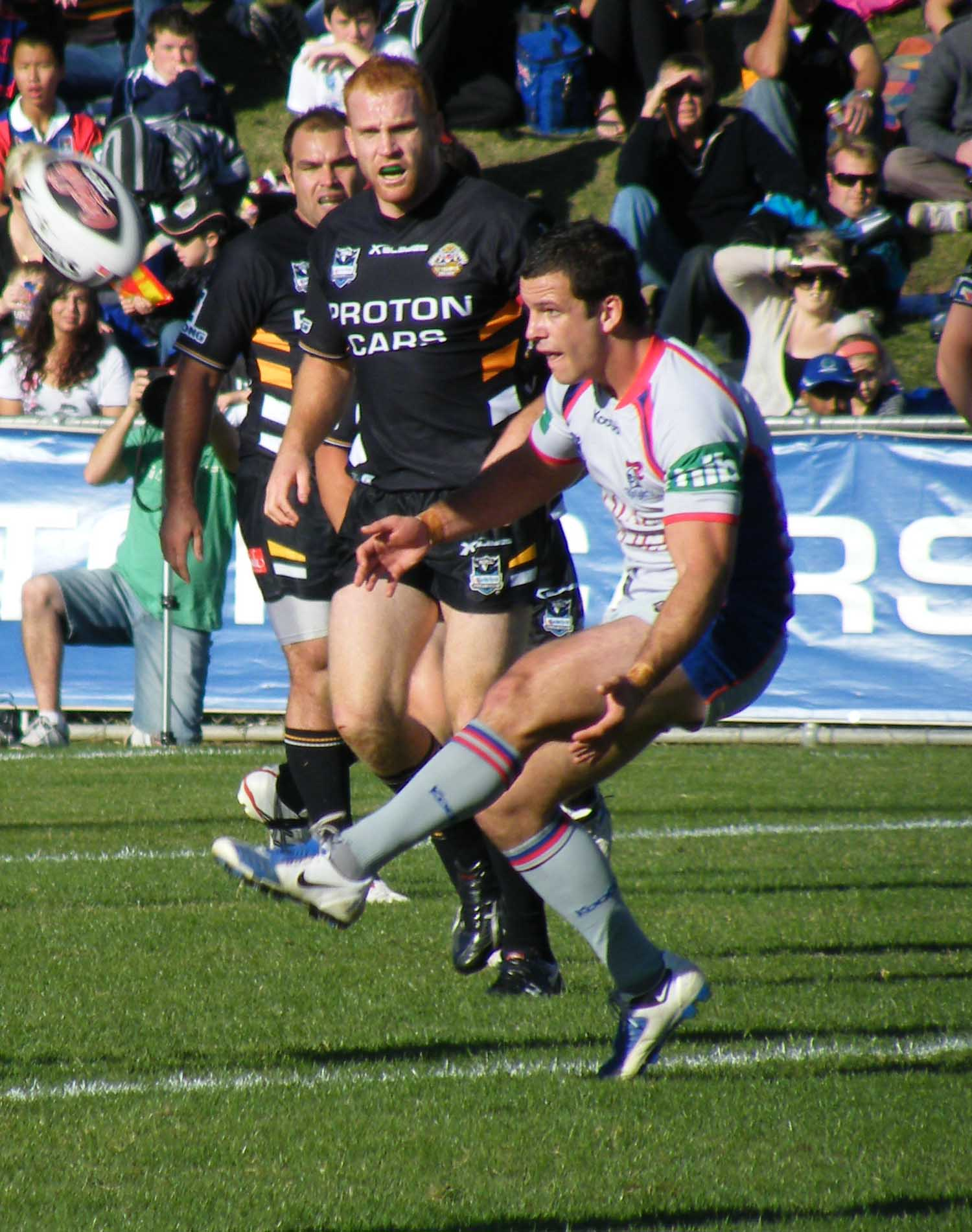 Jarrod Mullen of the Newcastle Knights